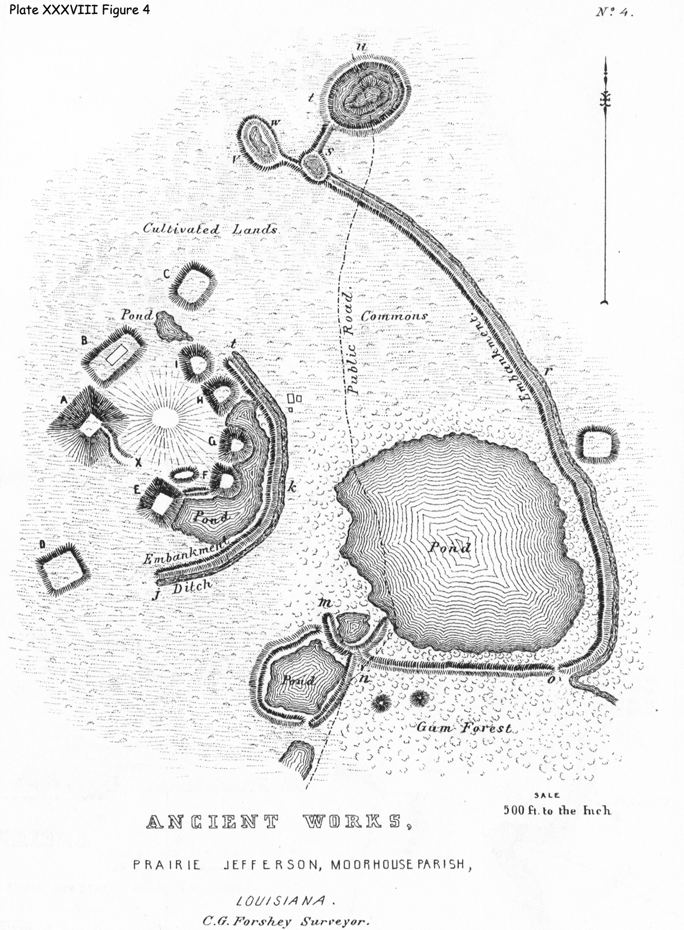 Plate XXXVIII, Figure 4 from "Ancient Monuments of the Mississippi Valley", published 1848. Depicts the ancient earthworks near Oak Ridge, Louisiana in Morehouse Parish, Louisiana.[1] The site is now known as the Jordan Mounds Site